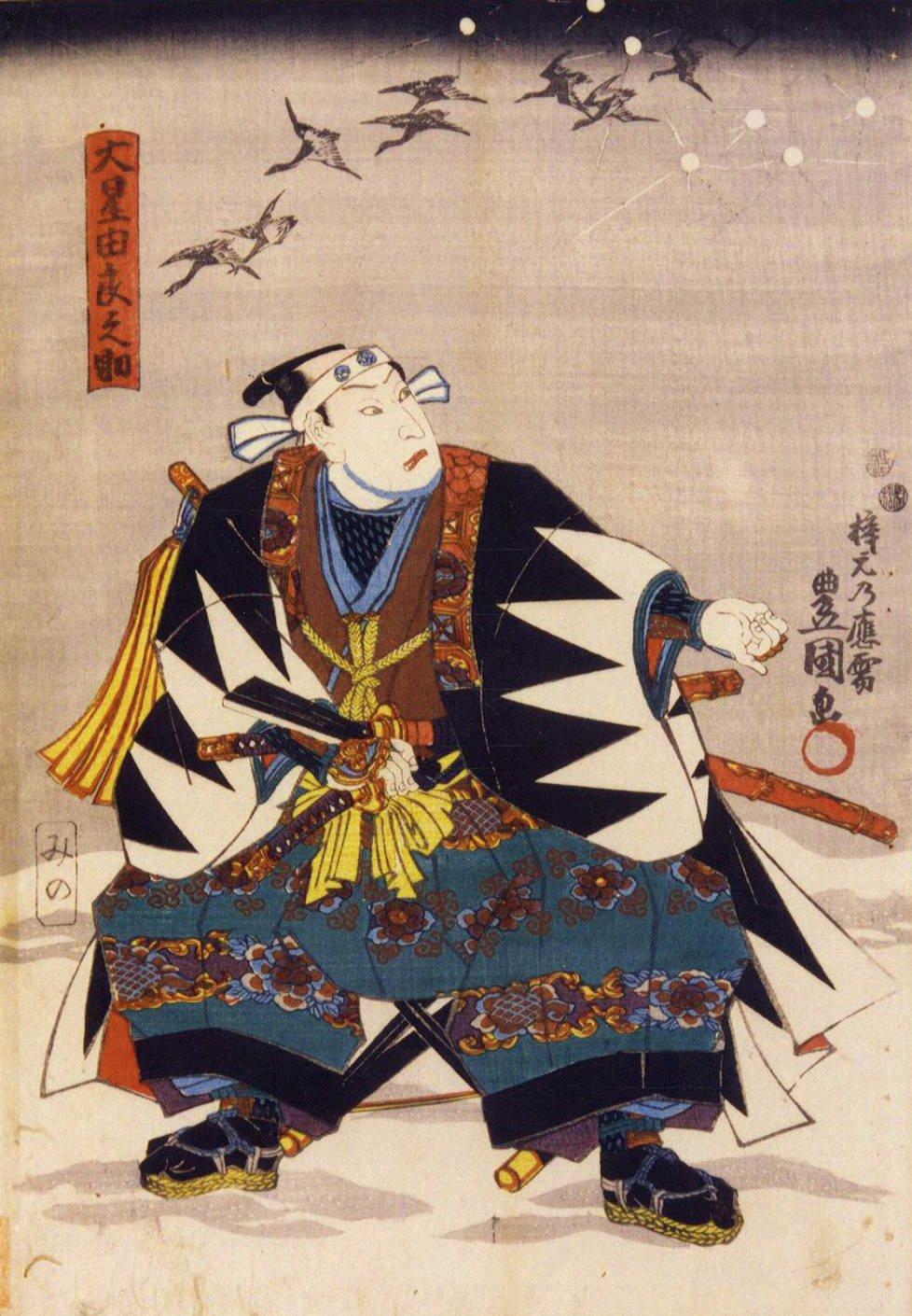 Chōjūrō Sawamura V as Ōboshi Yuranosuke in Kanadehon Chūshingura, by Toyokuni Utagawa III (the March 1849 production at Edo Nakamura-za)